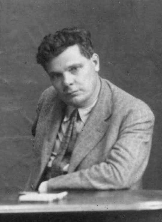 Alexander Balabanov